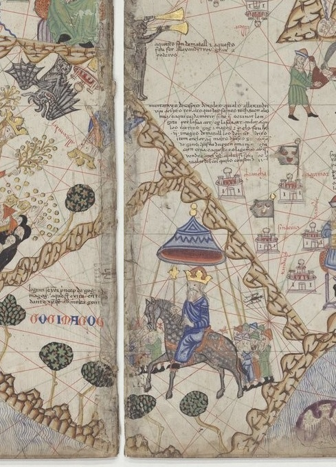 (Detail) Catlan Atlas (1375) Showing land labeled "Gog i Magog", with a procession headed by its king mounted on horse, followed by his people. Above these are shown Alexander the Great and the Antichrist (upside down), and the mechanical trumpeters whose sounds were powered by wind.[1]